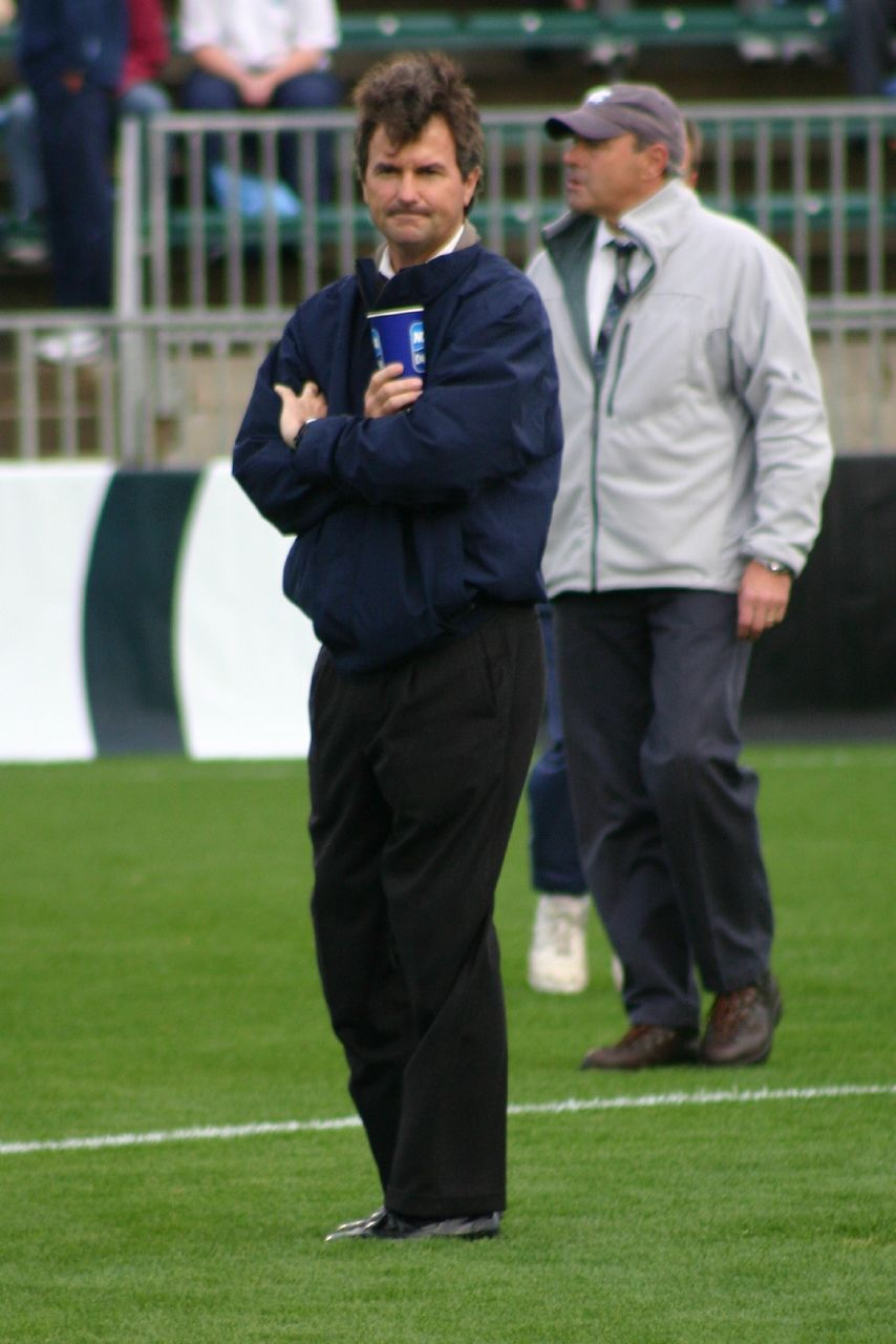 UNC Tar Heels (women) beat UCLA Bruins 2-0 on goals from Casey Nogueira and Heather O'Reilly in the semifinal of the 2006 Women's College Cup on Friday, December 1st at SAS Soccer Park in Cary, NC